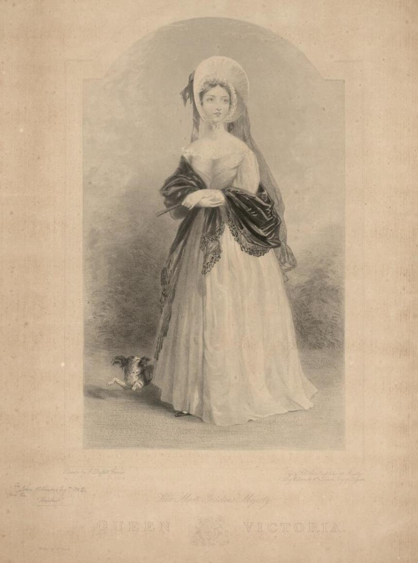 A portrait from the Welsh Portrait Collection at the National Library of Wales. Depicted person: Queen Victoria – British monarch who reigned 1837–1901